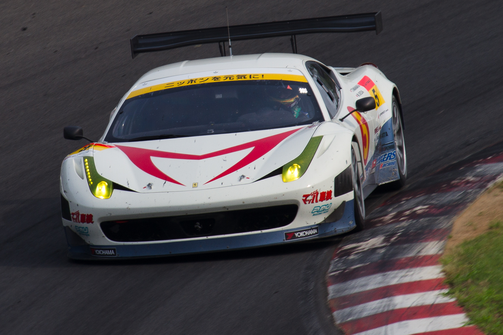 Super GT 2012 Rd.4 SUGO GT 300km: Masayuki Ueda (Team Mach) driving the Ferrari 458 Italia GT3.